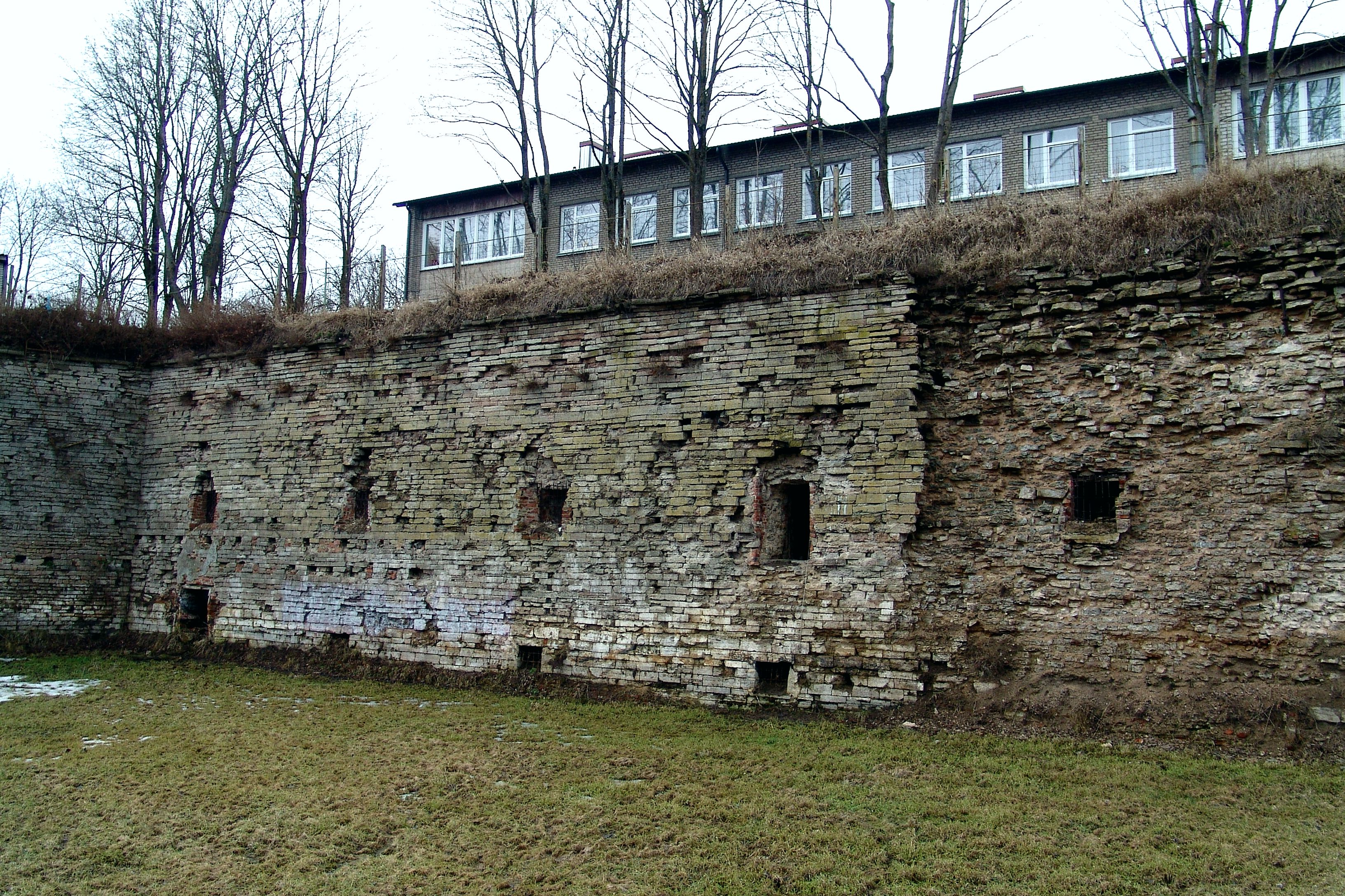 Bastion Honor of Narva castle